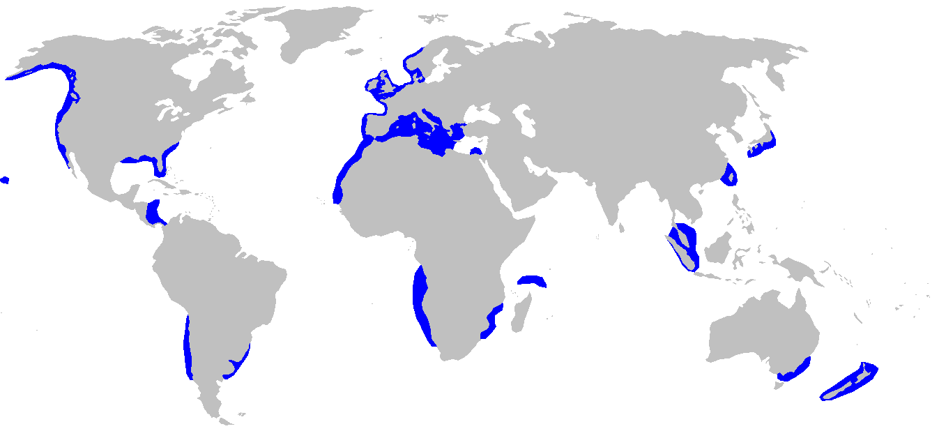 Distribution map for Hexanchus griseus